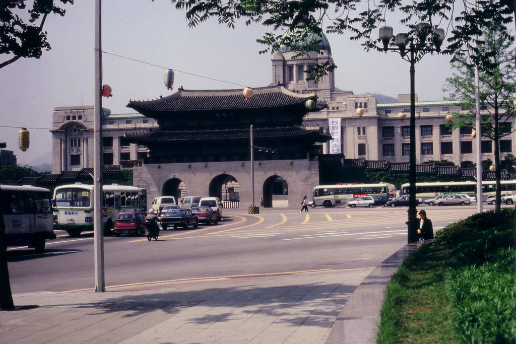 Image of the Japanese General Government Building, Seoul. Sourced from at the suggestion of the photographer.